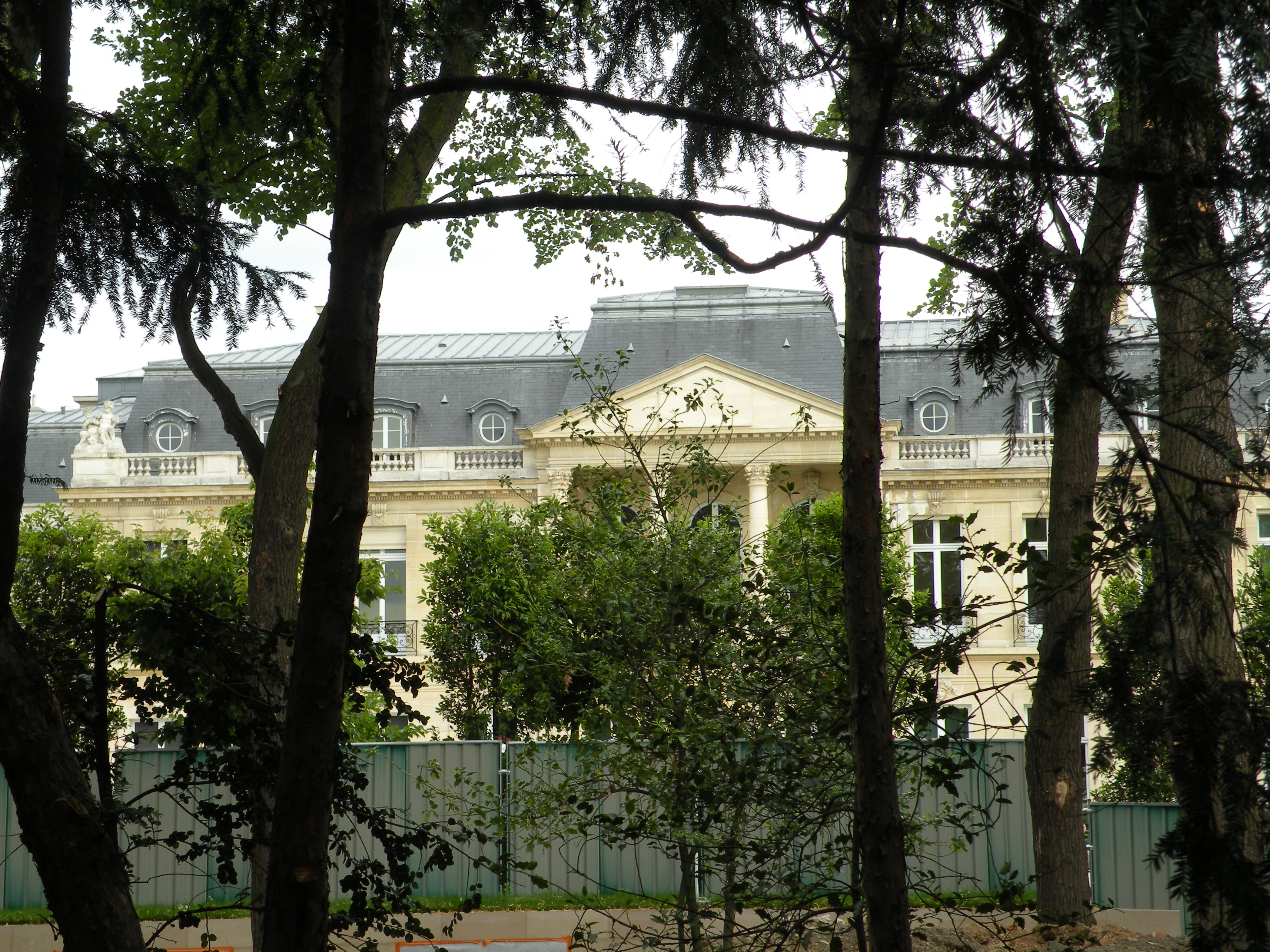 The Château de la Muette in Paris, seat of the Organisation for Economic Co-operation and Development.